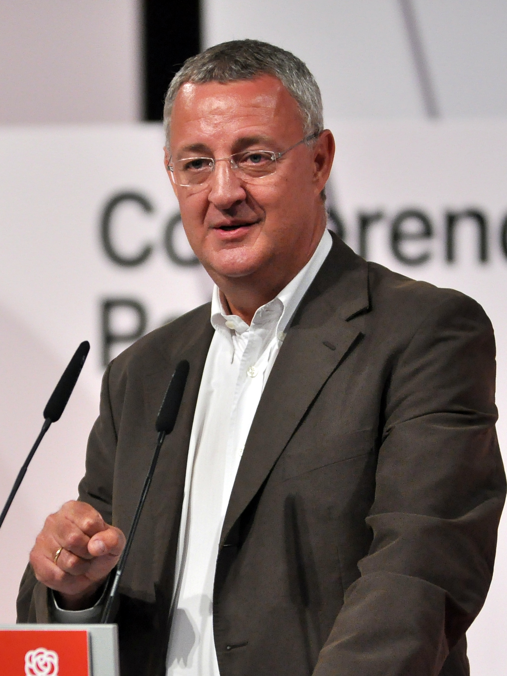 I Conf Pol PSOE (169)